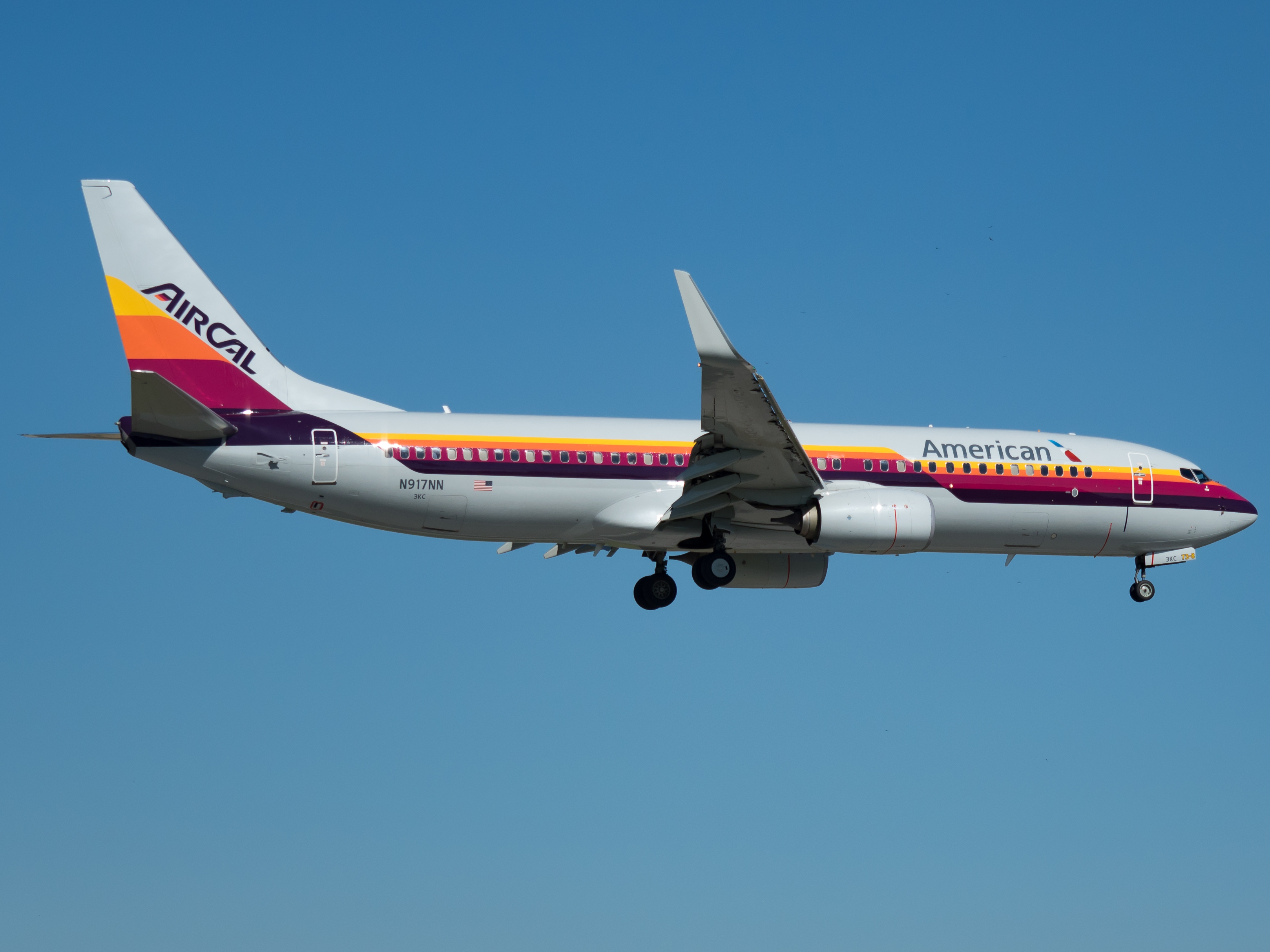 Planespotting MIA #FLAP2016